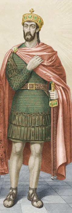 King Archil of Kakheti